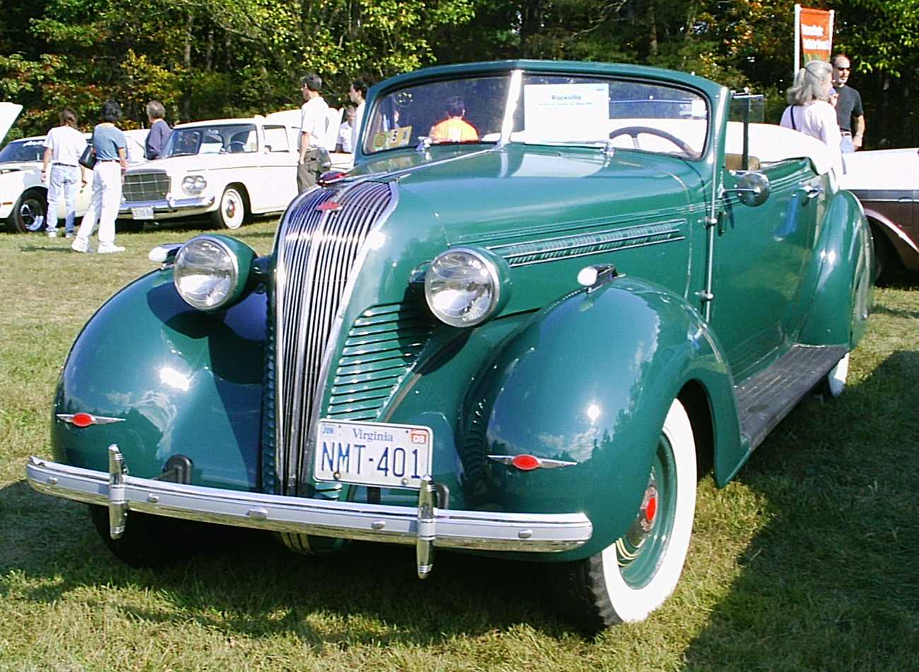 1937 Terraplane convertible at the 2007 Rockville, Maryland annual show. These cars were built by the Hudson Motor Company.